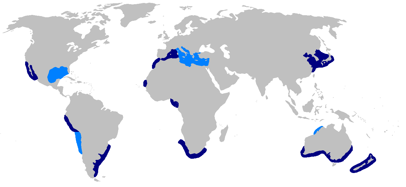 Distribution of the copper shark (Carcharhinus brachyurus), based on Compagno, Dando, and Fowler (2005)